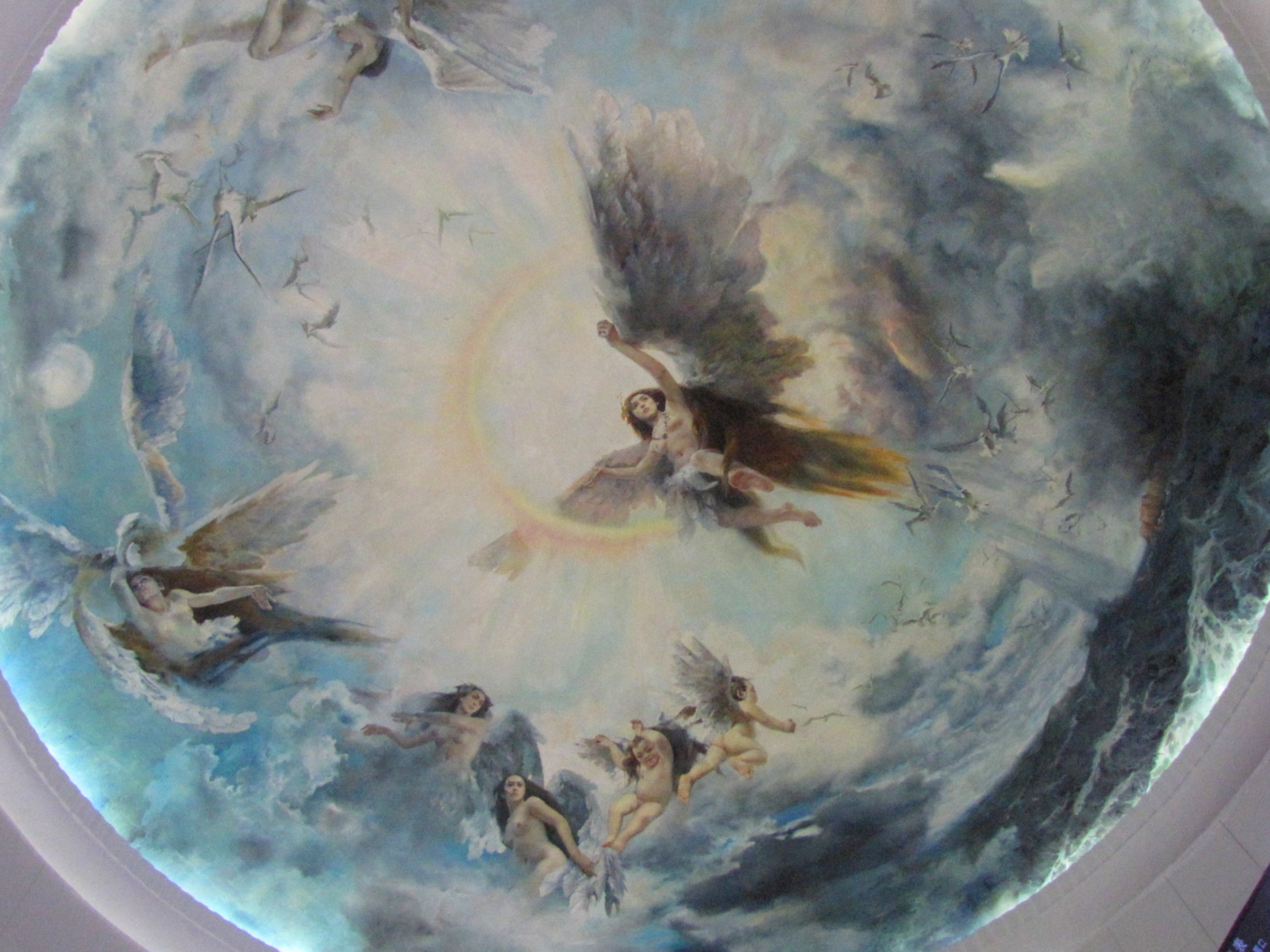 Tianjin Railway Station. Ceiling of south entrance hall.